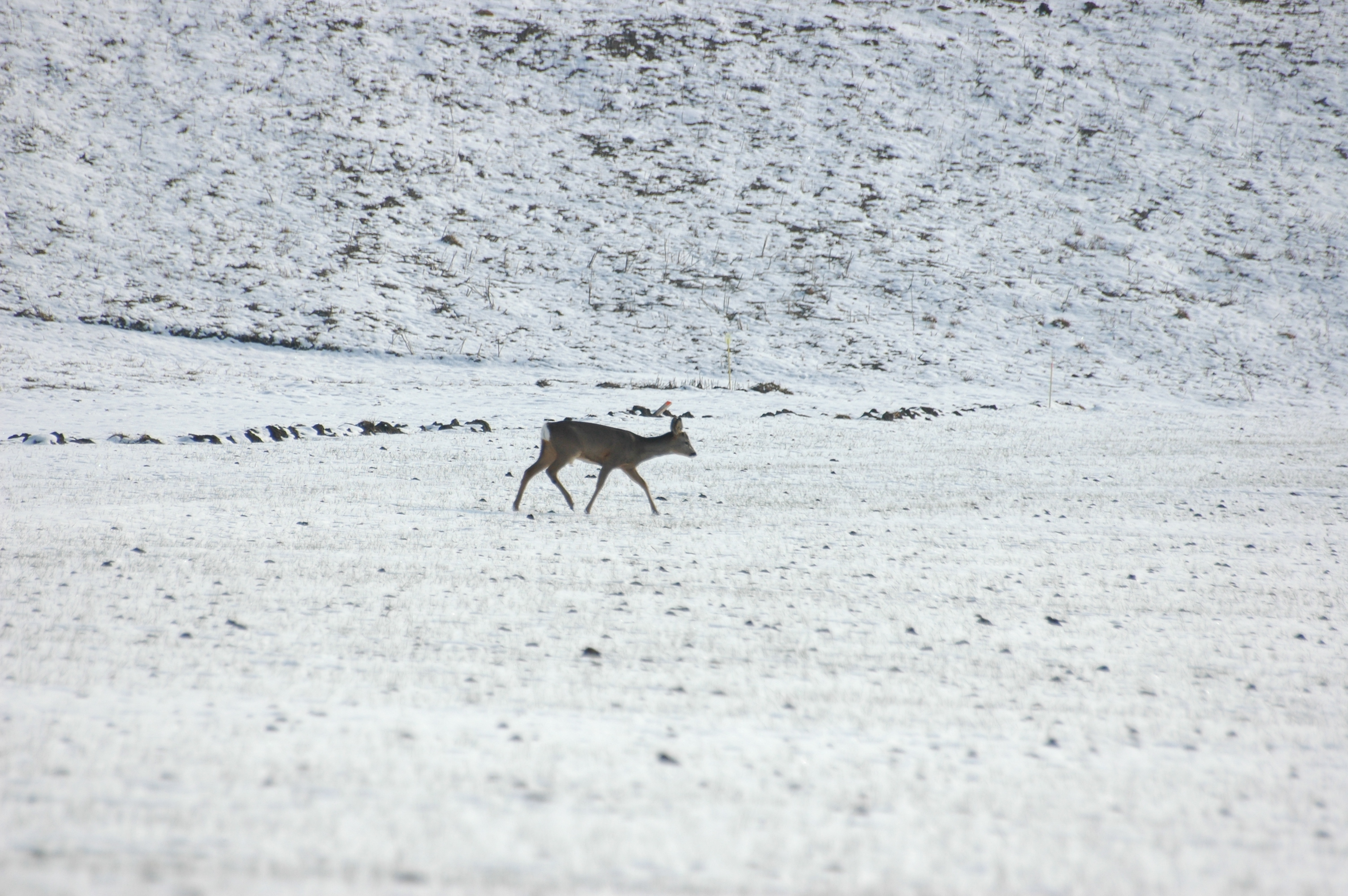 Roe deer